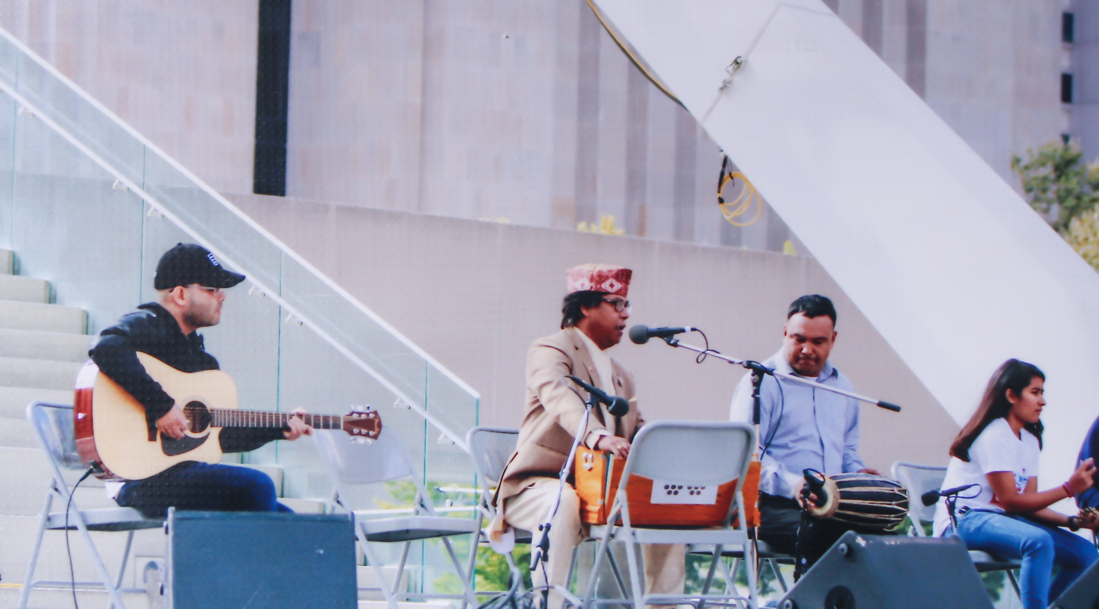 Purna Nepali during his musical performance